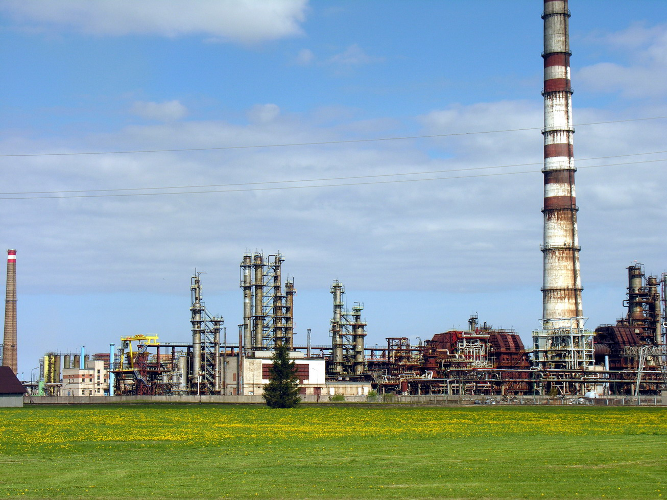 ORLEN Lietuva (ex Mažeikių Nafta) 2006 m. gegužės 17 d.